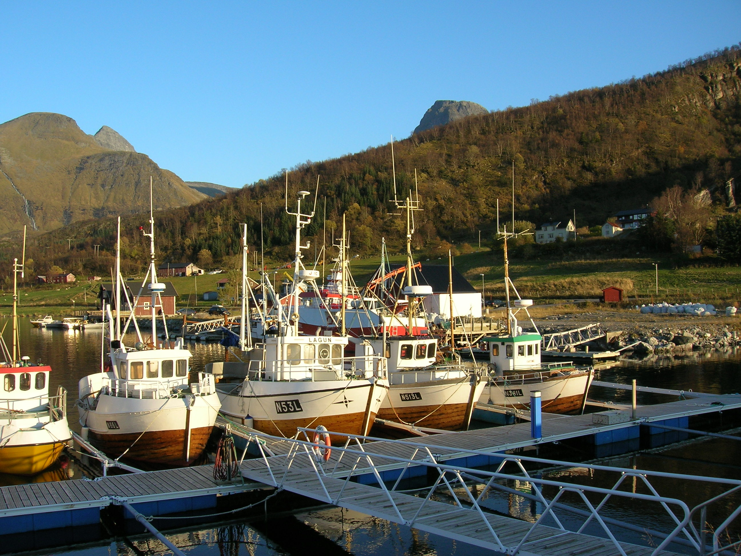 Picture from Aldersundet, Lurøy municipality, Nordland, Norway, Photo October 8, 2005 with a Nikon Coolpix 5600 5,1 Megapixel camera.